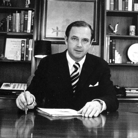 Alexander P. Butterfield, Administrator, U.S. Federal Aviation Administration (1973-1975)